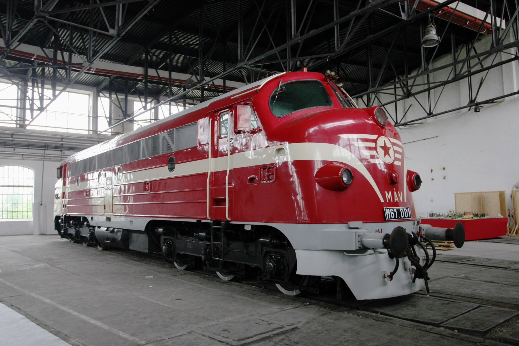 Hungarian State Railways MAV preserved NoHAB diesel engine M61.001 inside the roundhouse of Budapest Railway Museum "Füsti", representing the original livery of this class